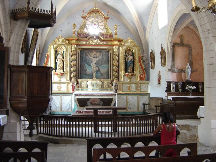 Interior of the chapel in Brousse-le-Château (Aveyron - France)